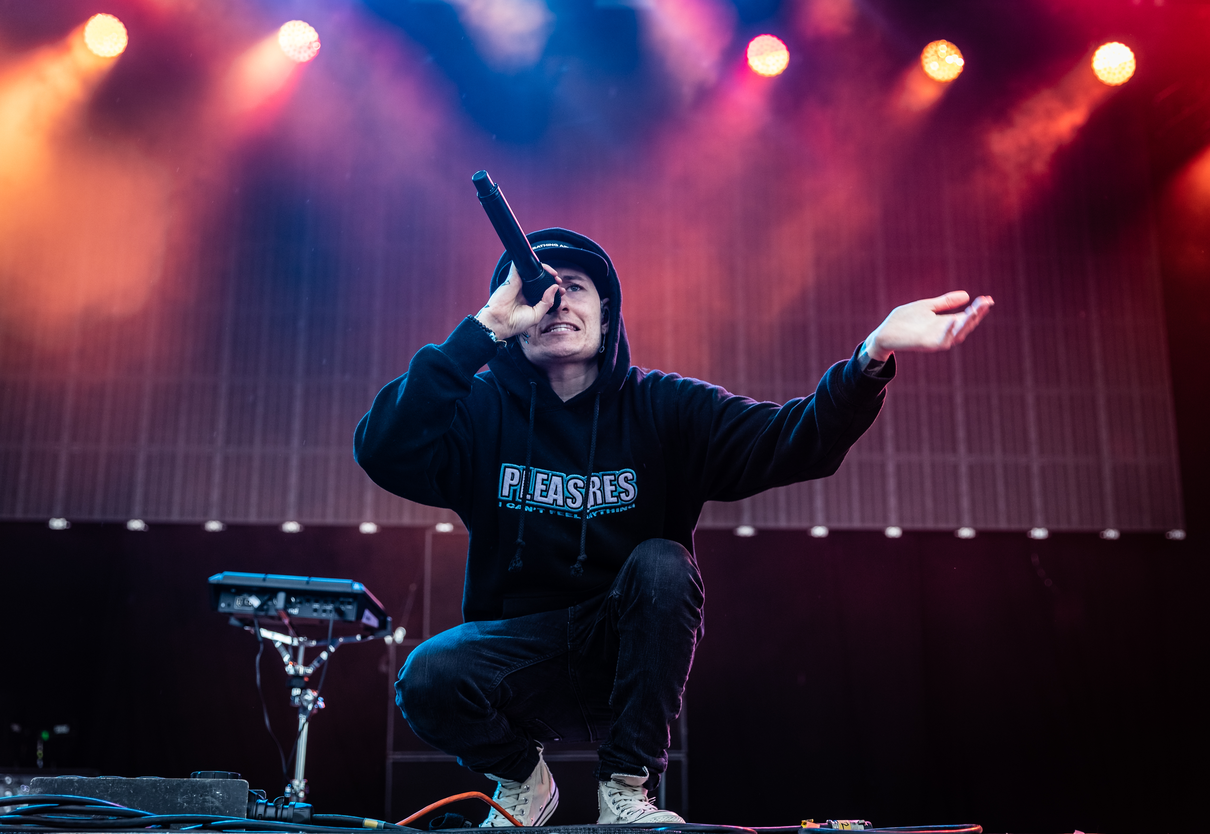 Nothing,Nowhere - Rock am Ring 2019